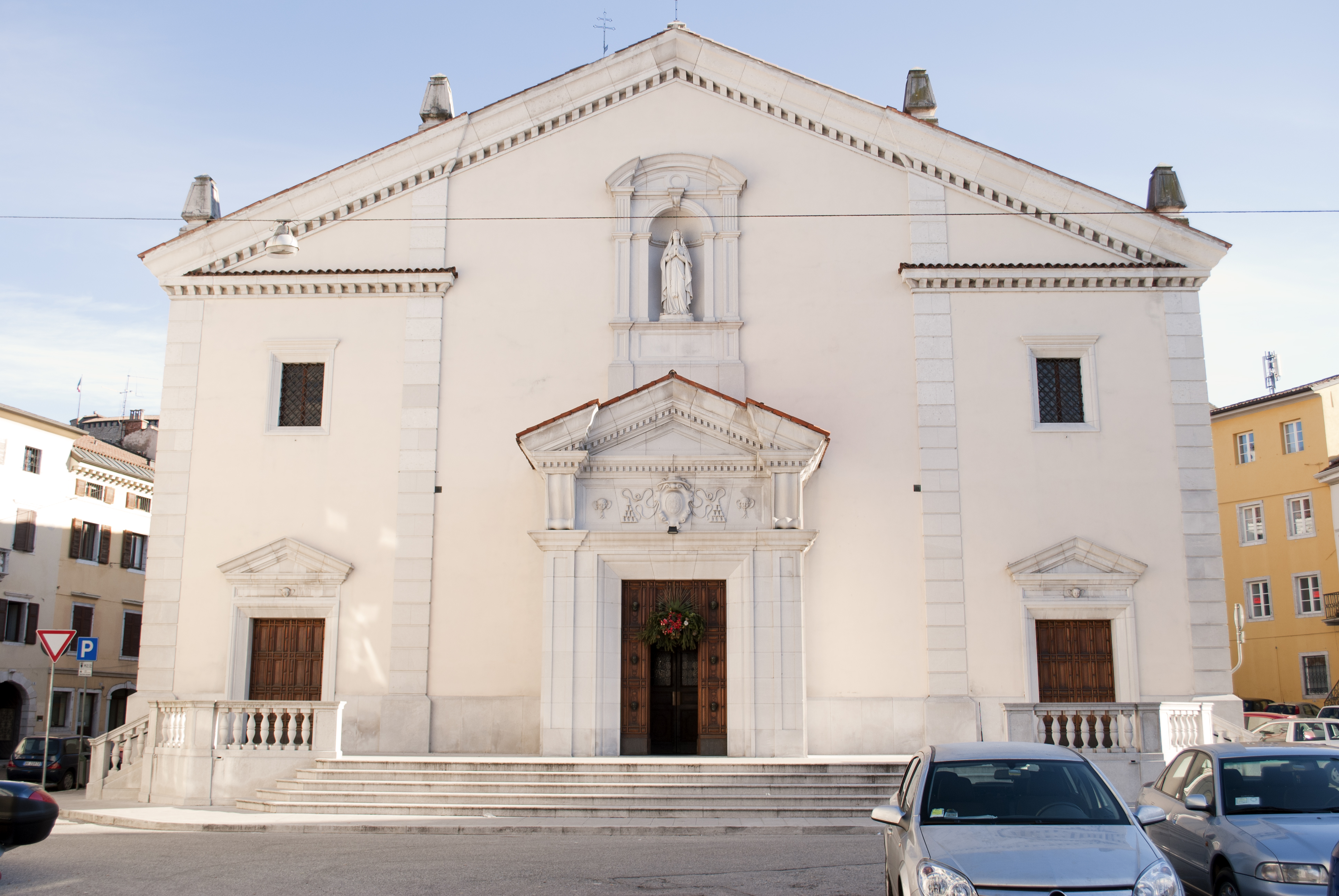 The Duomo of Gorizia, Italy; view of the facade.